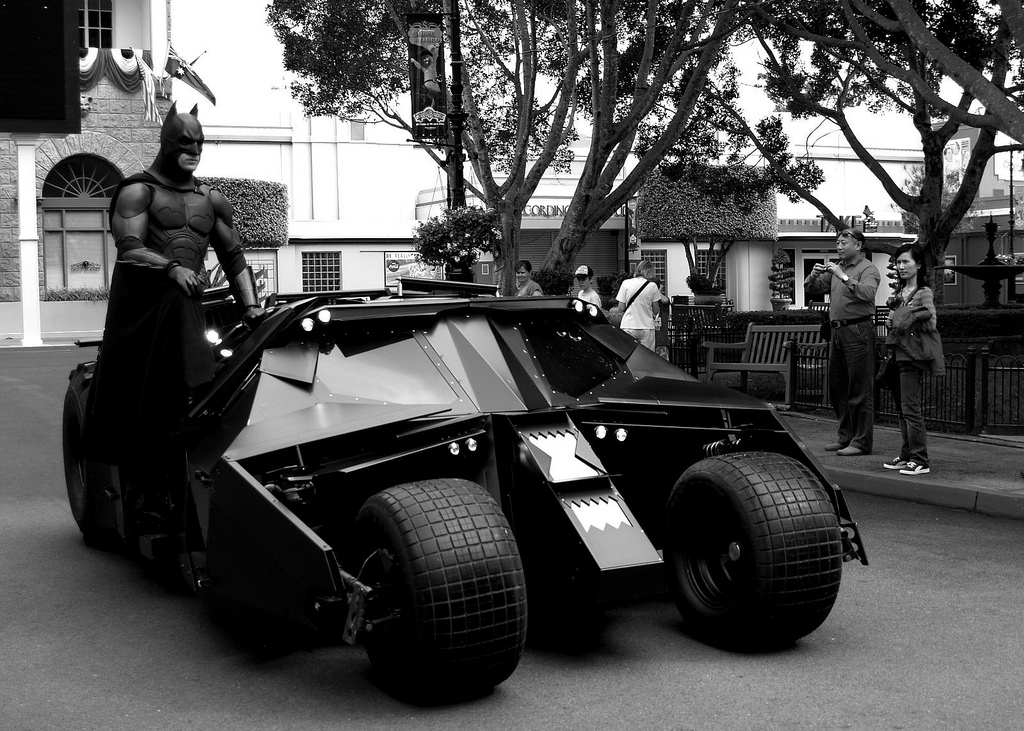 Batman showing off his Batmobile early in the morning in the MovieWorld. Haha. Cool car, it's actually working minus the jet engine.